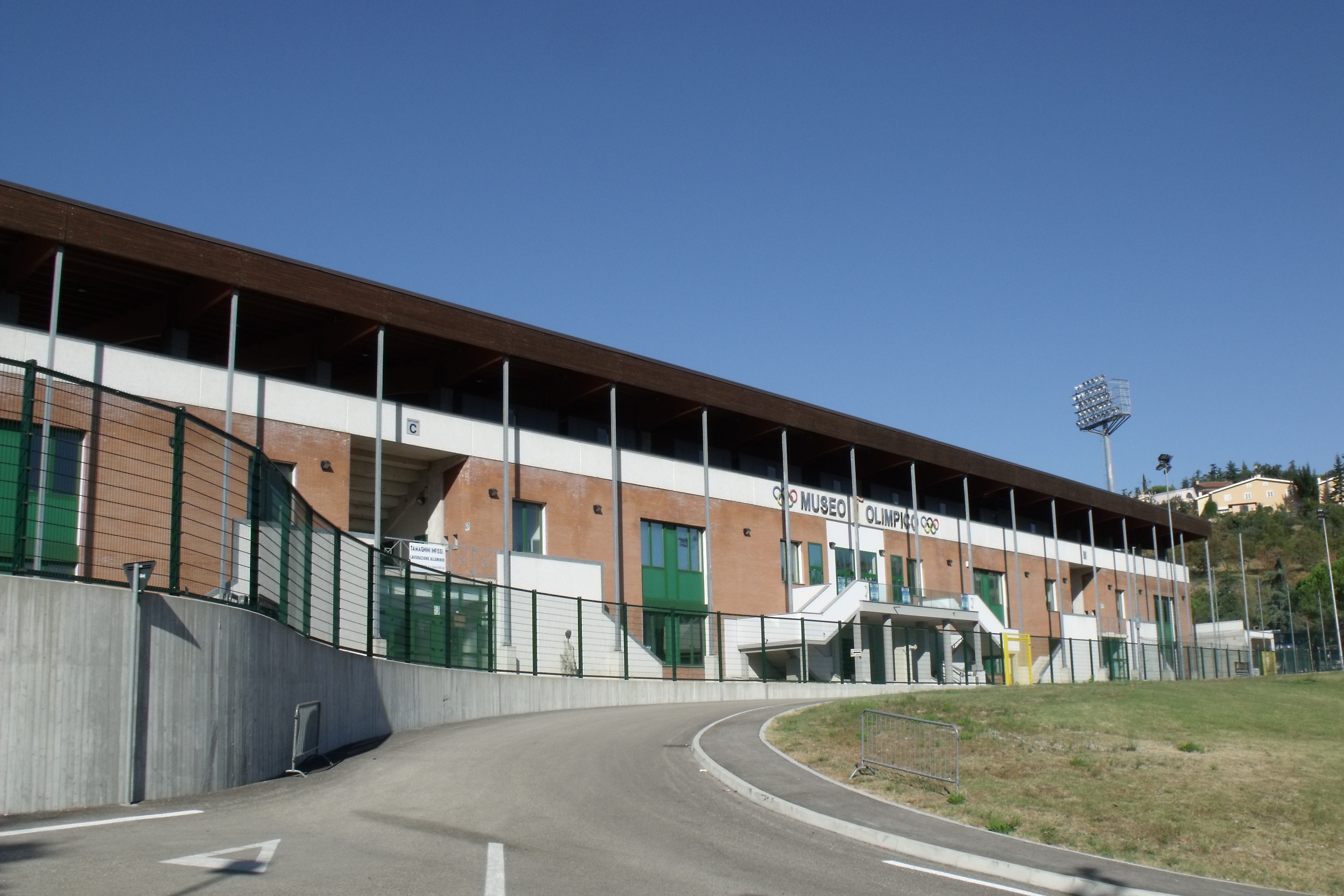 Football stadium of Serravalle in San Marino